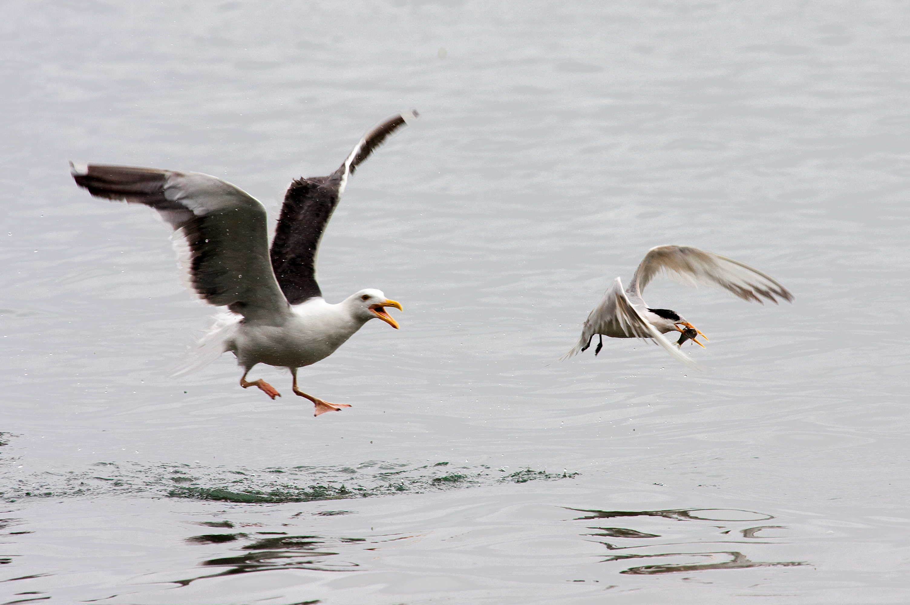 Feeding Frenzy in Windy Cove today included about fifty or more Elegant Terns diving for Anchovies, Pelicans and Western Gulls included. The Western Gulls aggressively tried to get the Terns to drop their catch.